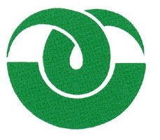 Matsuzaki Shizuoka chapter